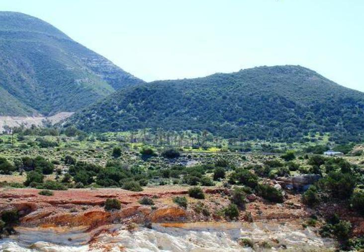 Green mountain of Libya